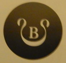 Seal used by the foundry of Franz Xaver Bergman, c. 1900-1930